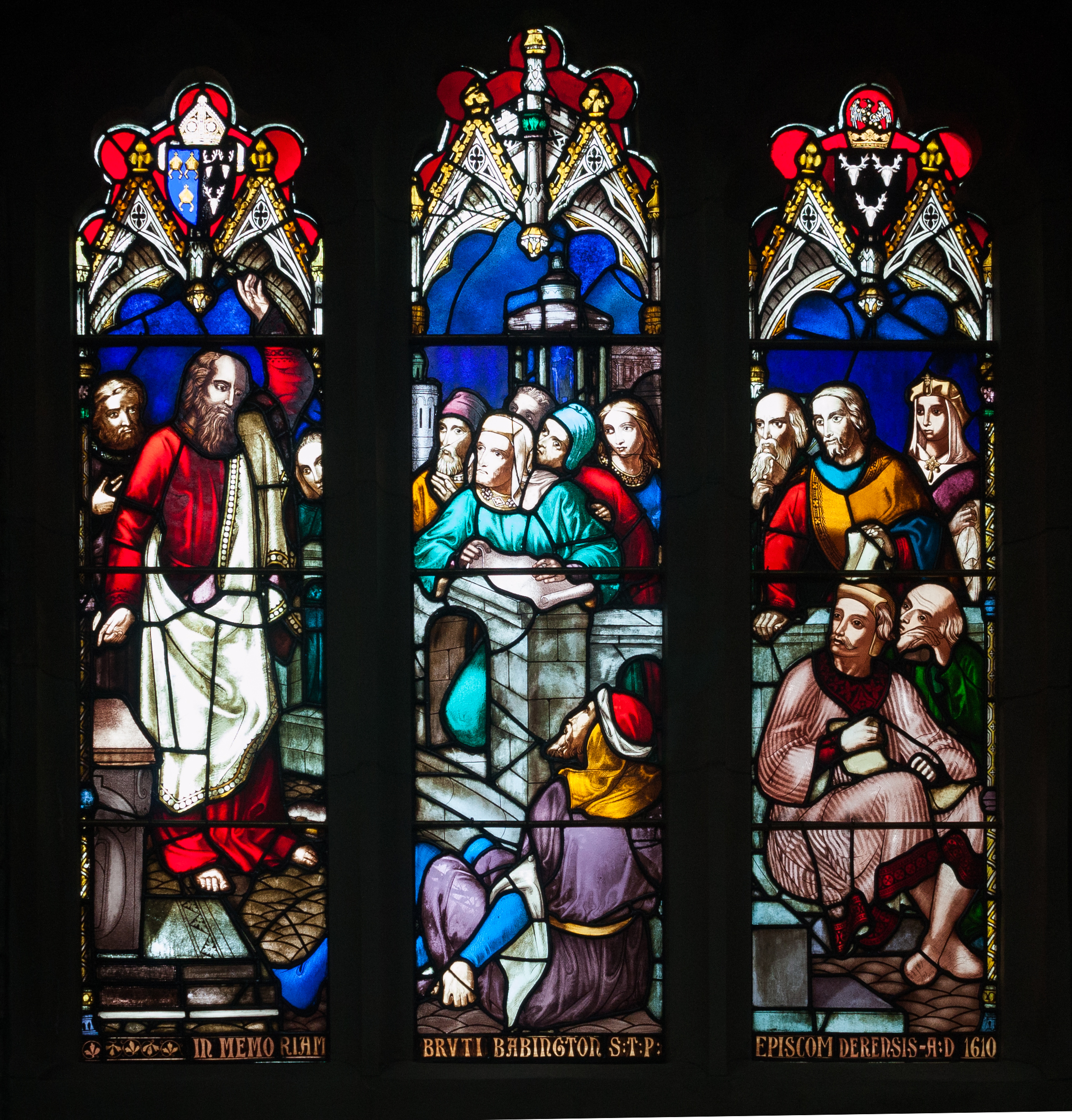 Third stained glass window (W15) in the north aisle (counting from west to east), depicting Saint Paul at Athens. It was erected in memory to Bishop Brutus Babington, who was consecrated 1610 but died early in September 1611. The window was manufactured by William Wailes, Newcastle-upon-Tyne, and installed in 1862. (See gloine.ie.)